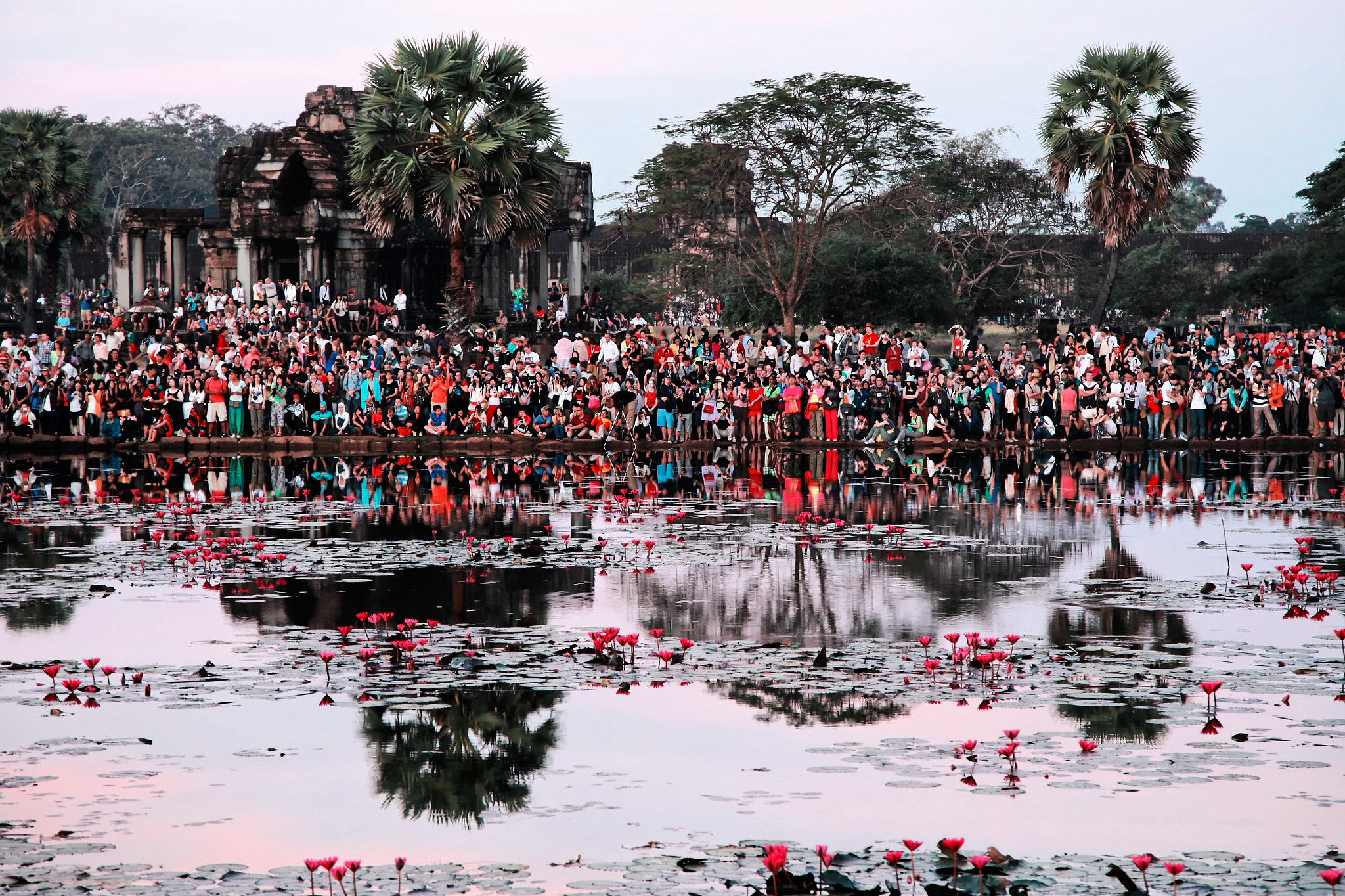 500px provided description: Tourists watch the sun rise in front of the reflecting pond at Angkor Wat, Cambodia ...